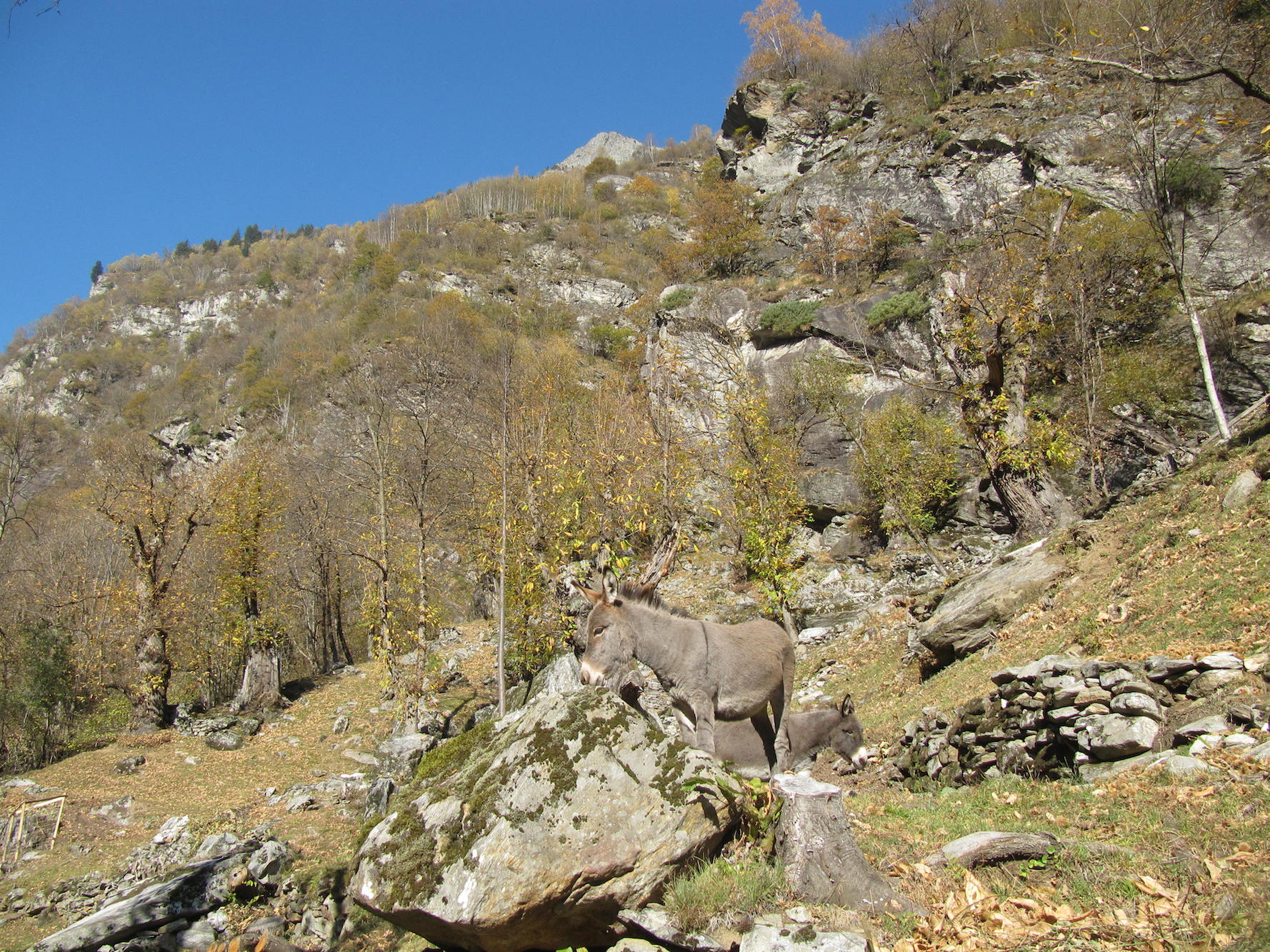 This is a traditional chestnut orchard of canton Ticino in Switzerland also called selva castanile. The animals are also represented with these donkeys. Picture was taken in autumn 2017